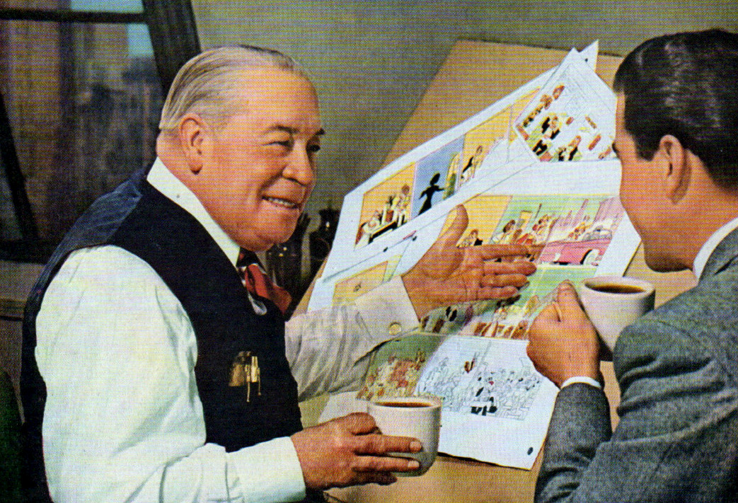 Photo of cartoonist George McManus from a 1952 coffee ad.